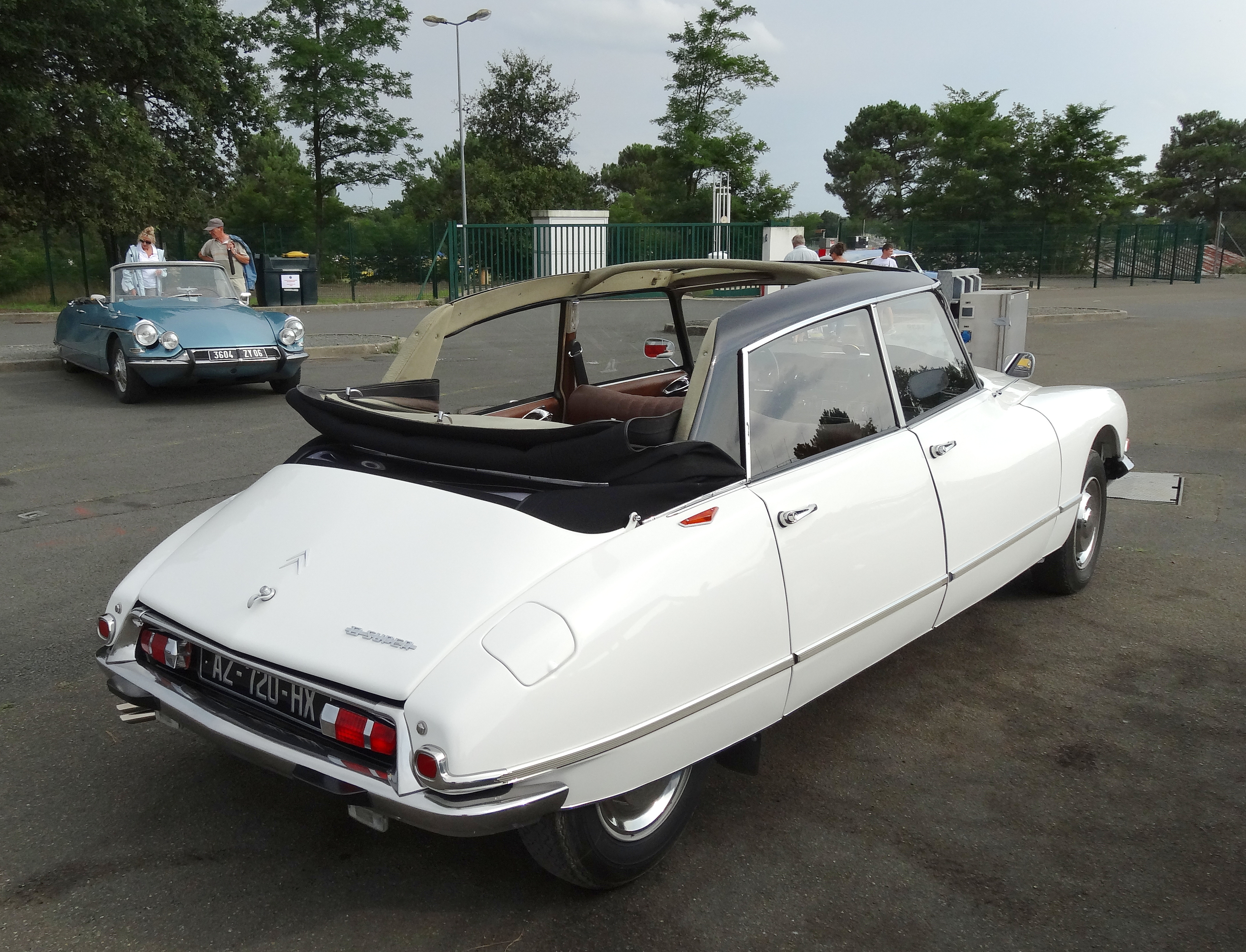 DS Chapron découvrable 4 portes